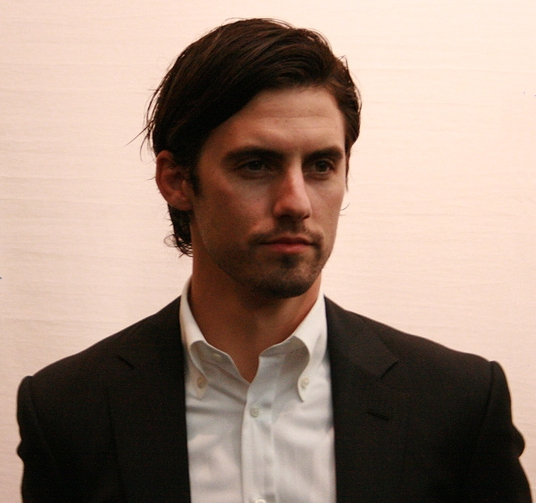 Milo Ventimiglia at the William S. Paley Festival for Heroes, March 10, 2007.